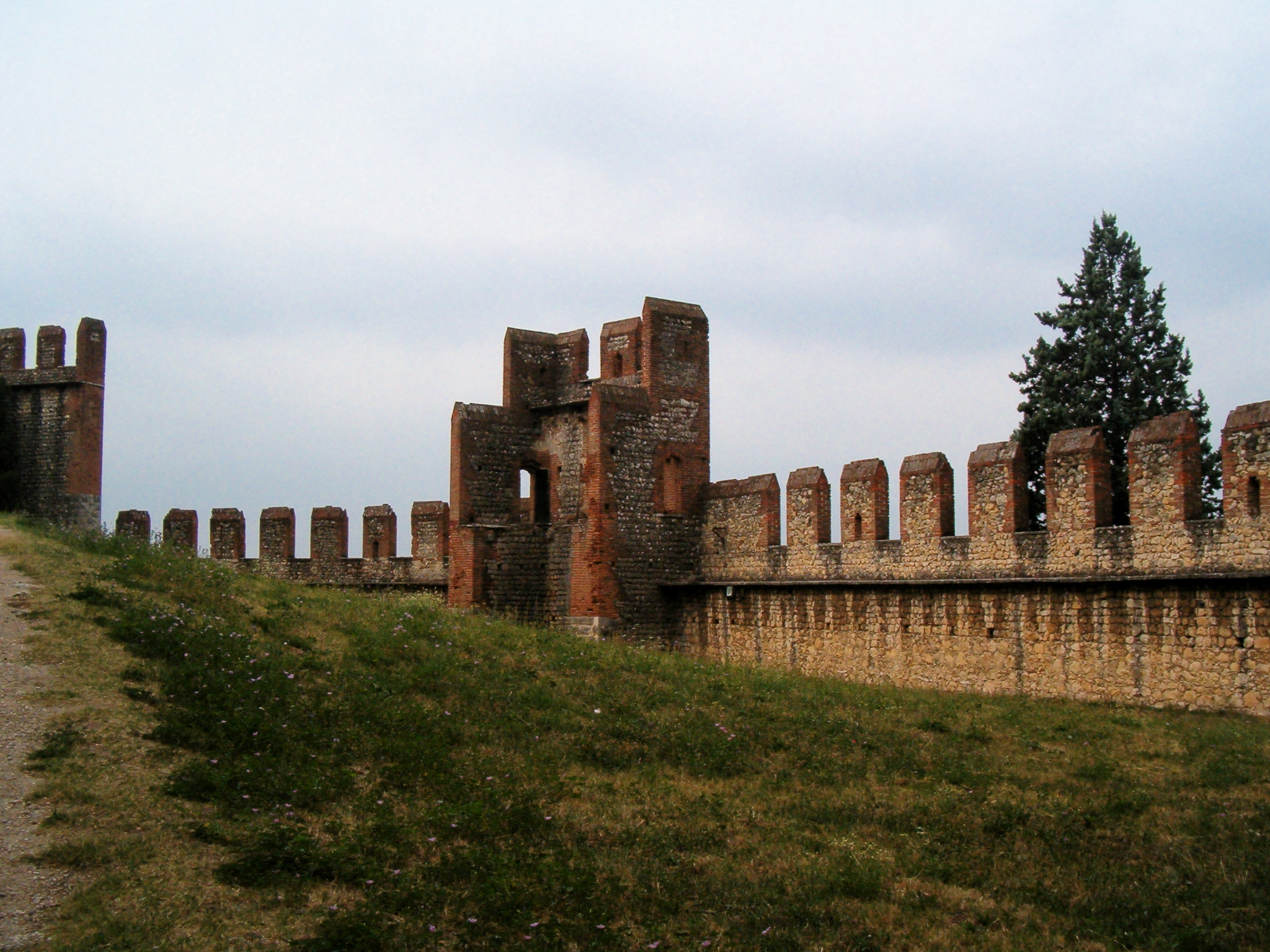 Castle of Soave (Province of Verona.